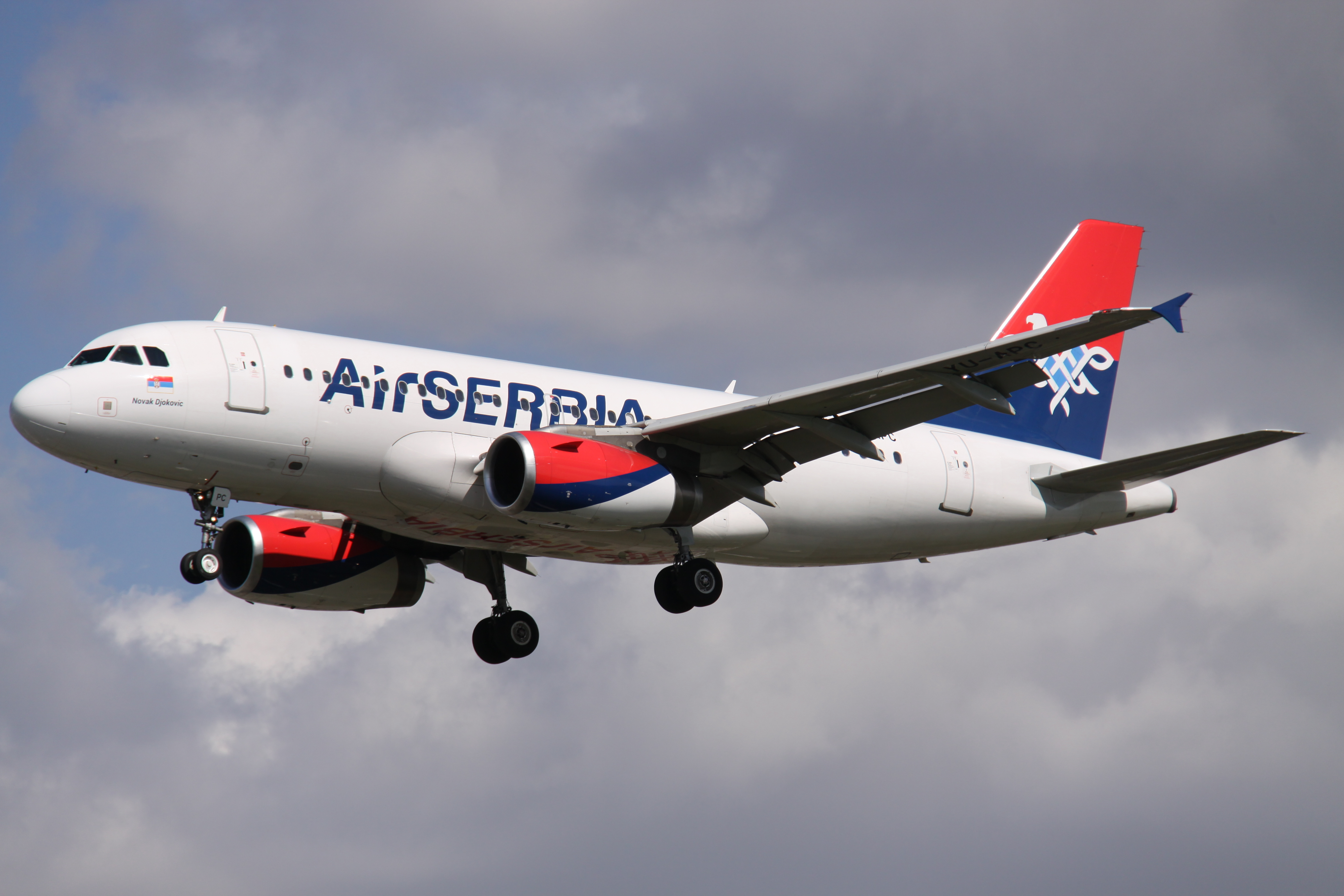 At London Heathrow